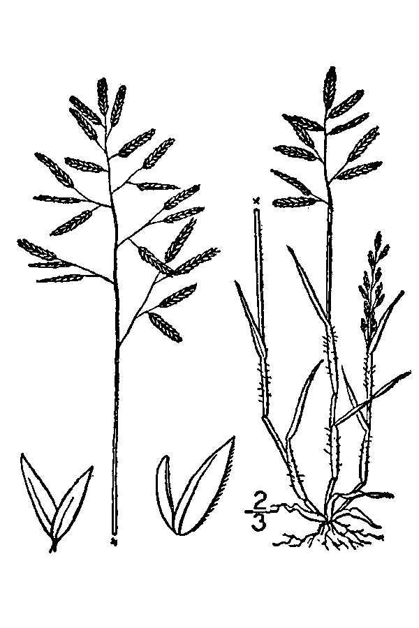 Illustration of Eragrostis minor Britton, N.L., and A. Brown. 1913. An illustrated flora of the northern United States, Canada and the British Possessions. Vol. 1: 240. Courtesy of Kentucky Native Plant Society. Scanned by Omnitek Inc. Usage Requirements.